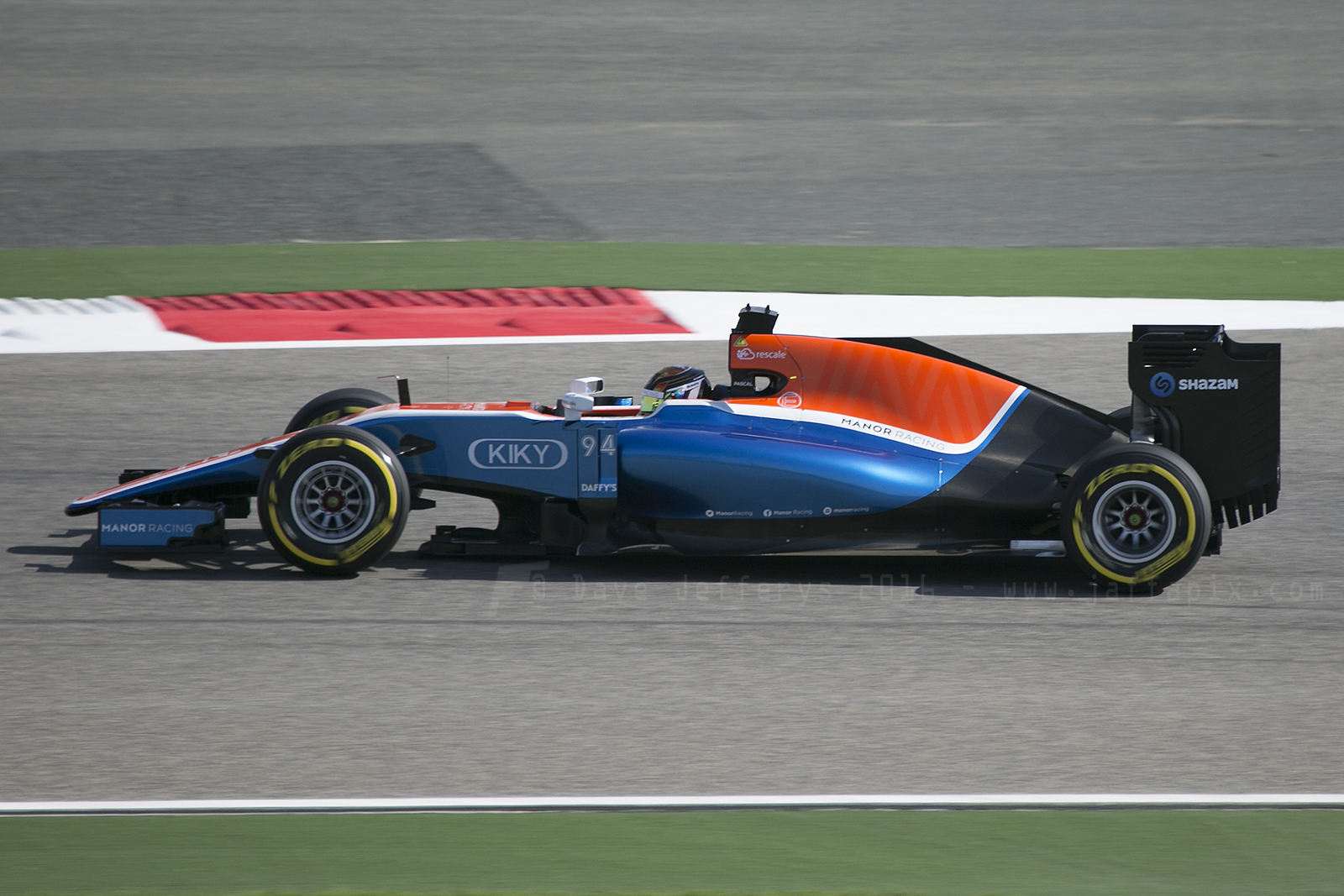 Pascal Wehrlein at the 2016 Bahrain Grand Prix